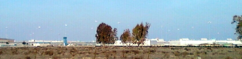 North Kern State Prison in Delano, California as seen from the eastbound lane of West Cecil Avenue, view looking north-northwest. This photograph was taken with a Samsung Reclaim SPH-m560 mobile phone camera and edited (crop, rotation, saturation, brightness, contrast, sharpness) using ArcSoft PhotoStudio 5.5